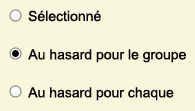 A set of three radio buttons.